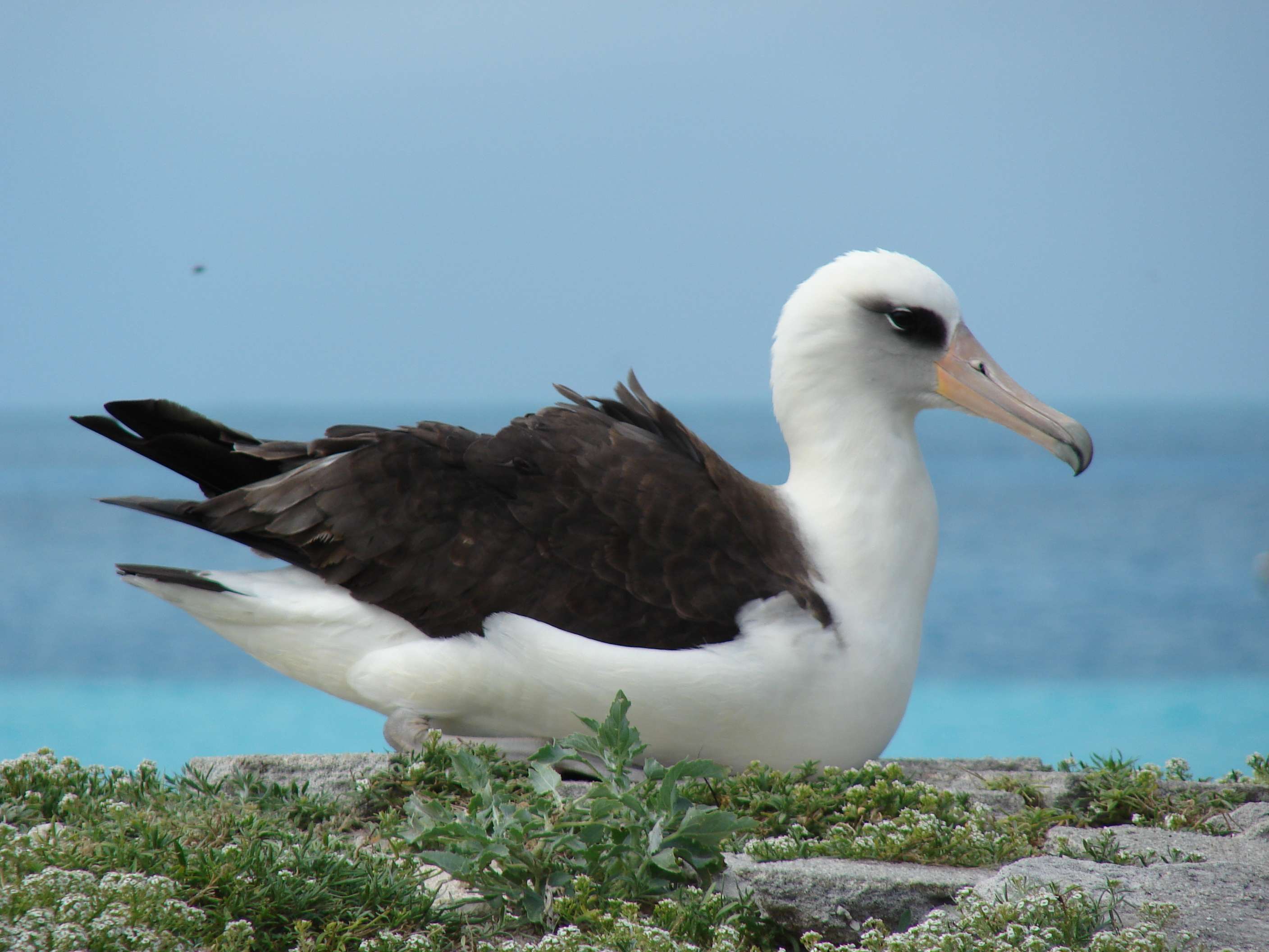 Lobularia maritima (habit with Laysan albatross). Location: Midway Atoll, Old Fuel Farm Sand Island